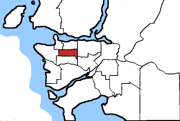 Map of the Vancouver Kingsway electoral district. Based on Earl Andrew's maps, created by SimonP.